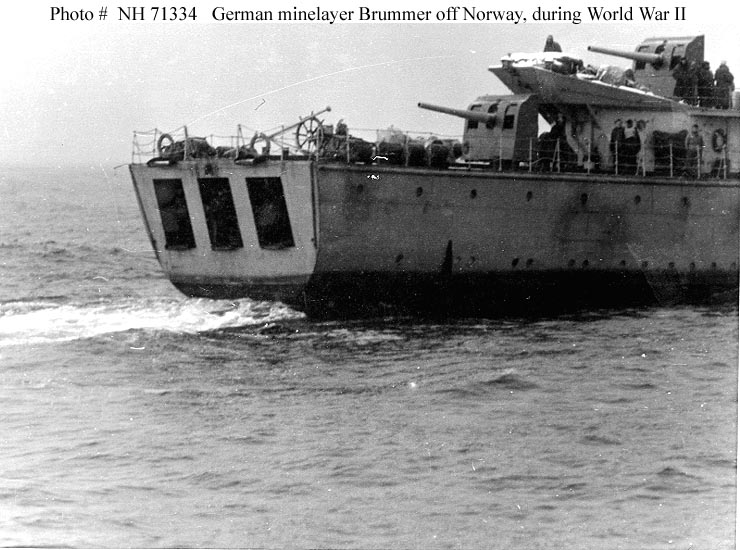 The mine launching doors and aft guns of the Brummer (former HNoMS Olav Tryggvason)